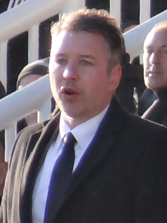 30/03/13 Peterborough v Cardiff, Championship, London Road Stadium, Peterborough